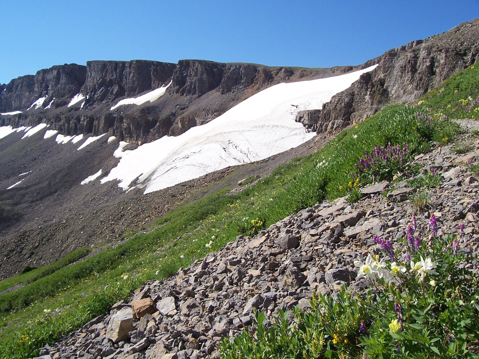 Schoolroom Glacier is a small and rapidily retreating glacier in Grand Teton National Park